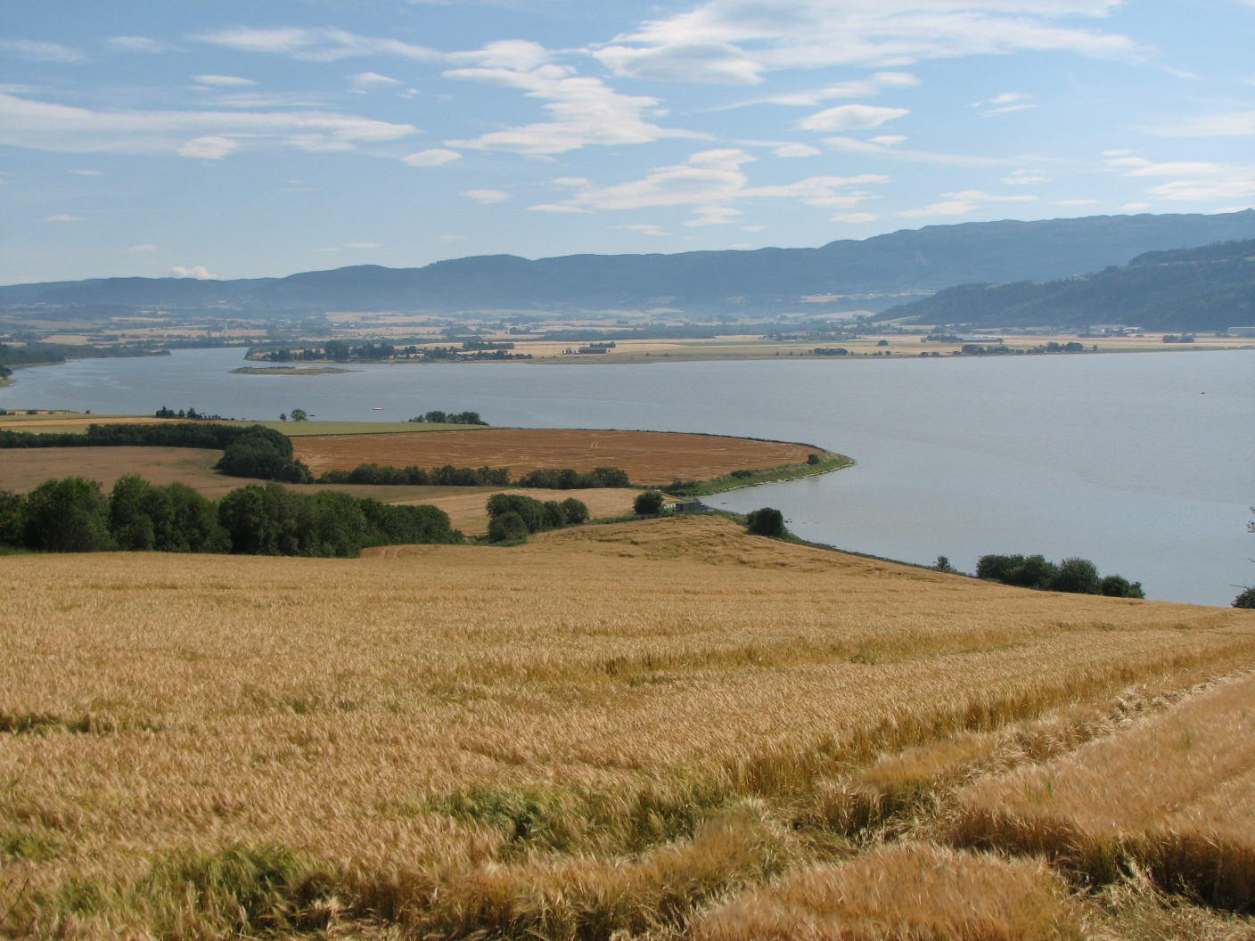 Norwegian lowland landscape near the Gaulosen branch of Trondheimsfjord Norway.